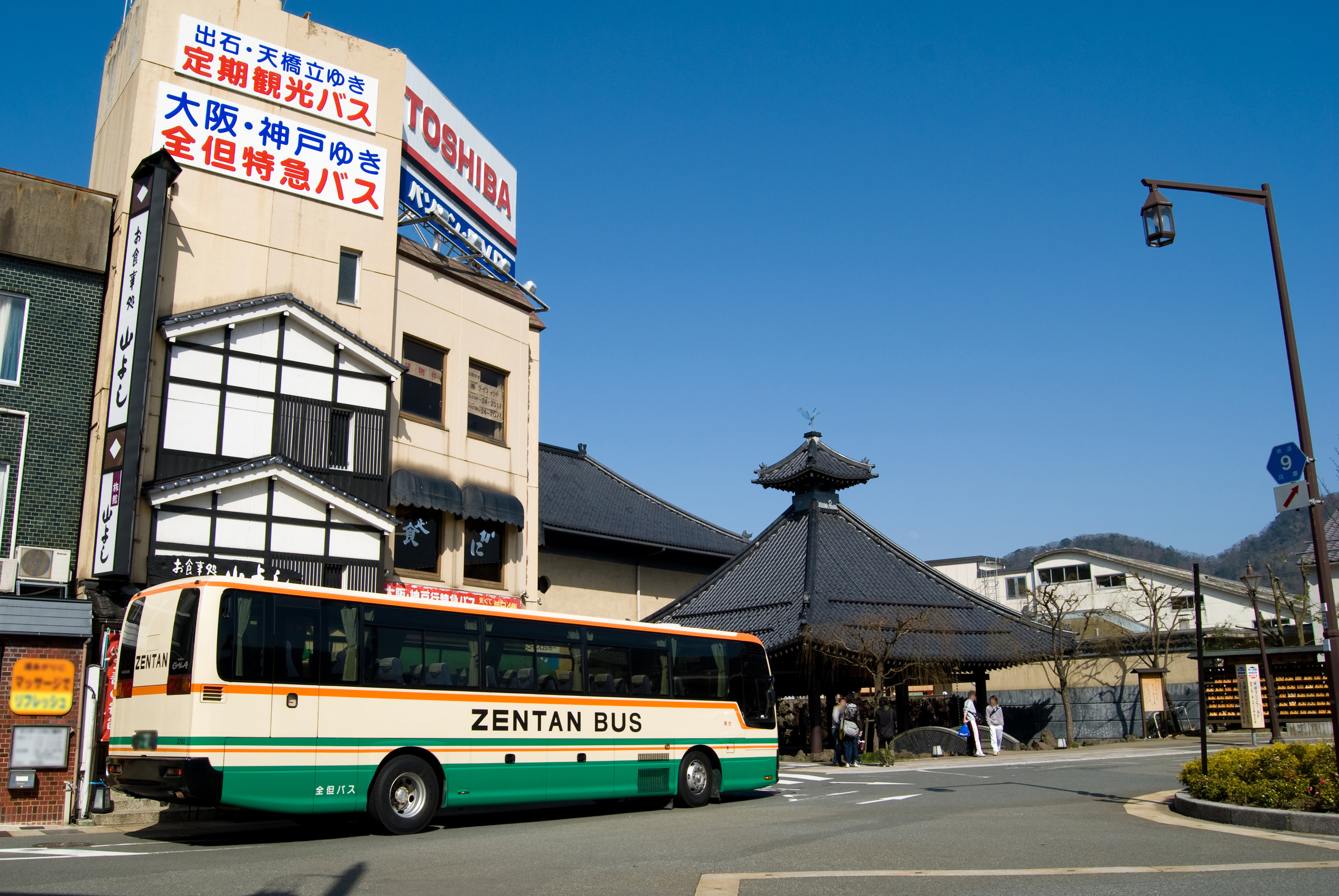 This is a Zentan bus "Kinosaki Office" and Hot spring of station "Satonoyu".